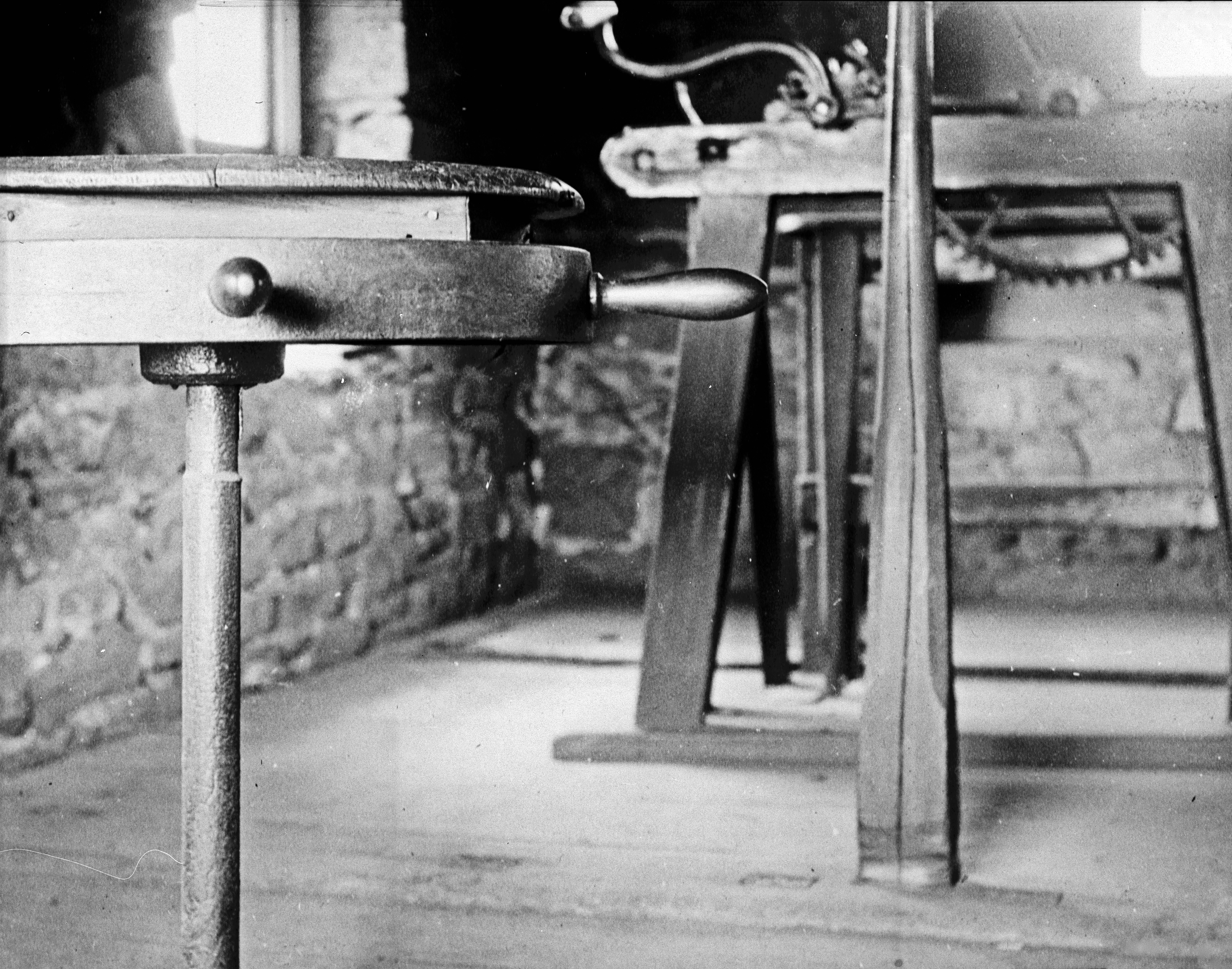 Detailed view of controls for the powerhouse for an inclined plane (unknown which one) on the Morris Canal.